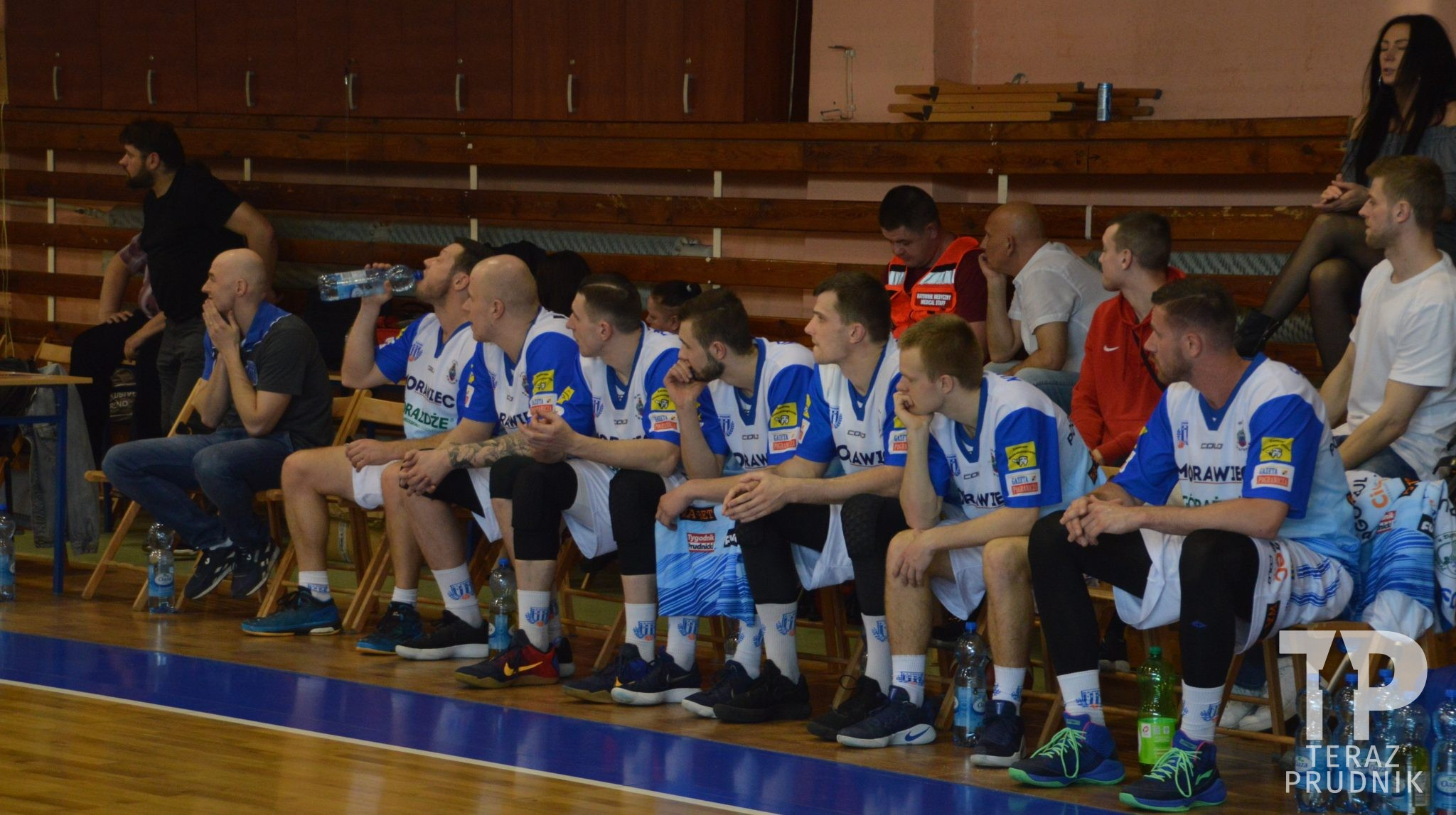 Pogoń Prudnik – Doral Kłodzko 14.04.2018